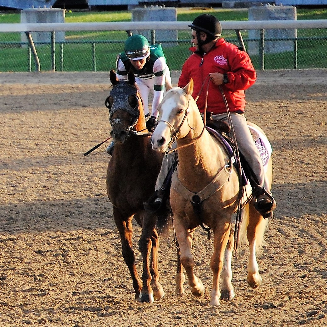 Accelerate returning to the winner's circle after winning the 2018 Breeders' Cup Classic